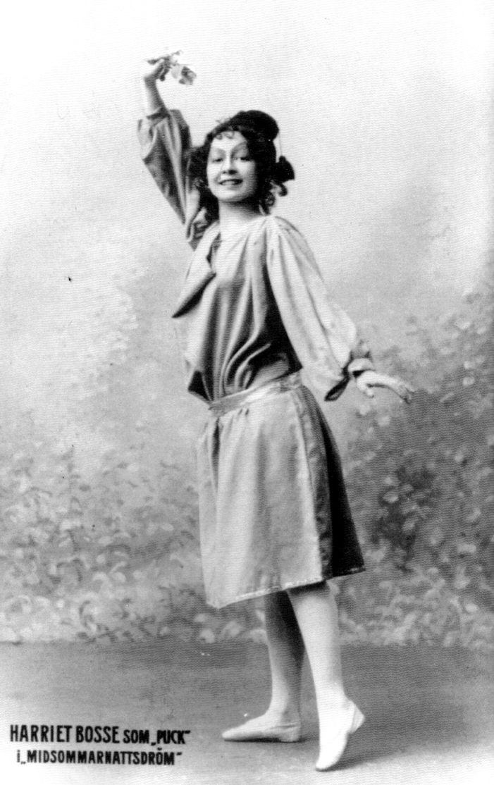 Photo of Harriet Bosse as Puck in A Midsummer Nigh't Dream.